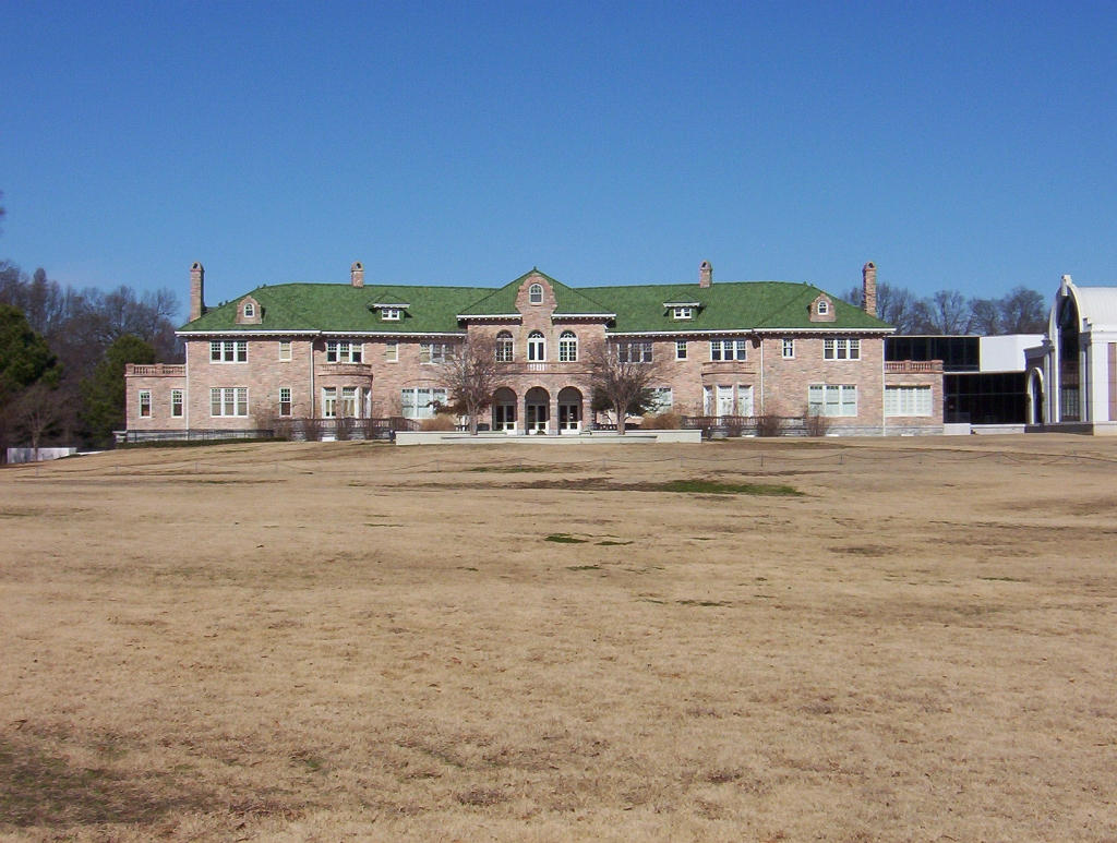 Pink Palace Museum and Planetarium in Memphis, Tennessee